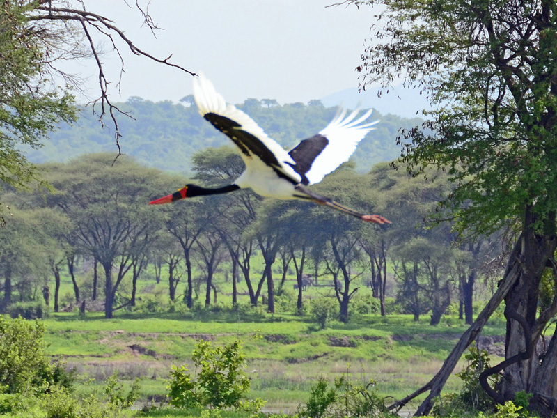 A flying saddle-billed stork in Ruaha Nationa Park, Tanzania, early January 2012